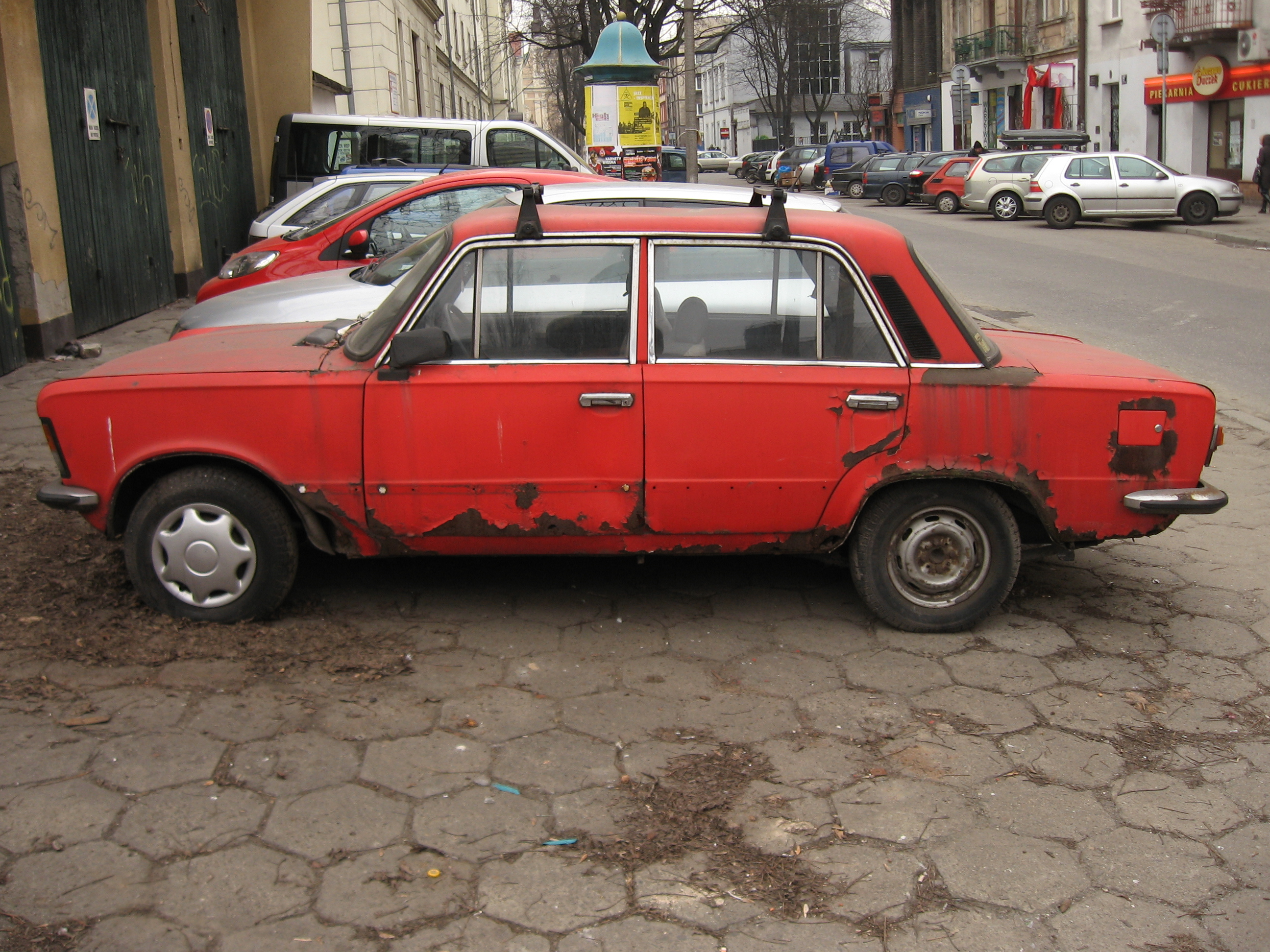 Polski Fiat 125p MR'82 1500 on Rajska street in Kraków.